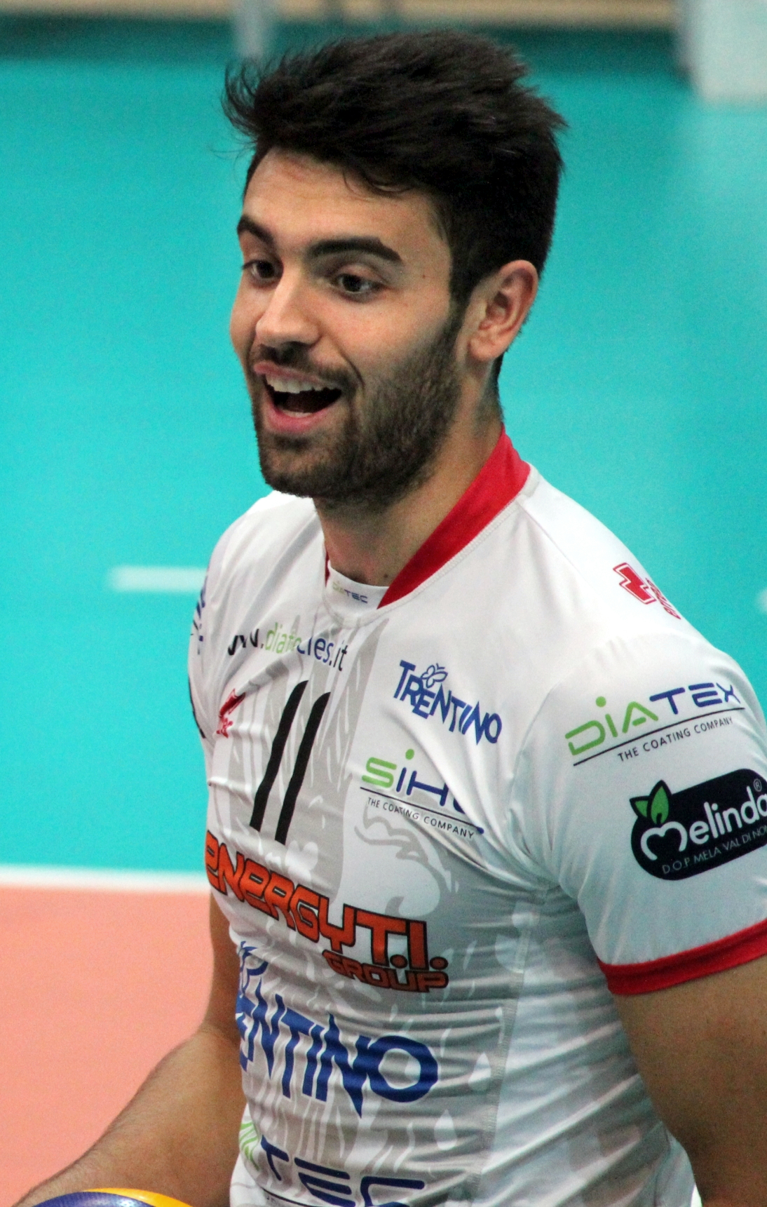 Sebastián Solé, Argentinian volleyball player, in 2014